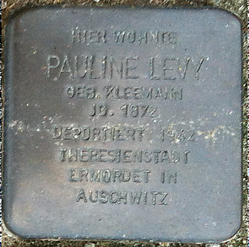 Stolperstein - Stumbling Stone in Nettetal, NRW, Germany Pauline Levy